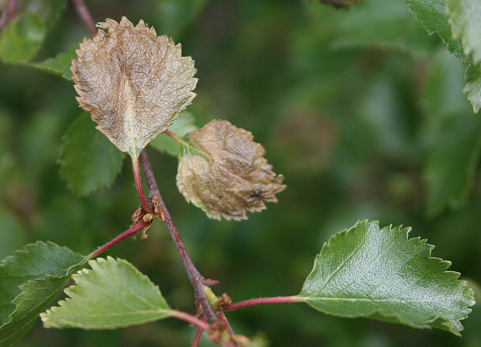 Damage to birch leaves by Eriocrania unimaculella in Fossvogur, Iceland, 2012.